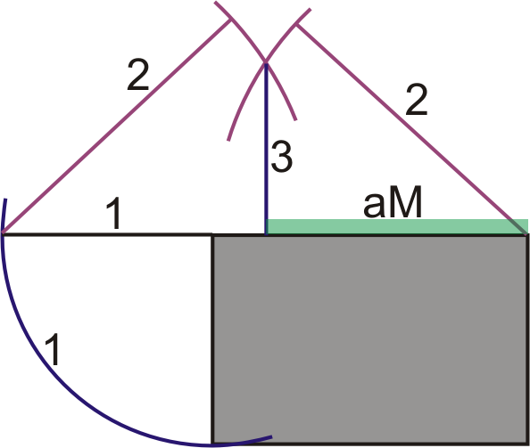 Drawing of the arithmetic mean